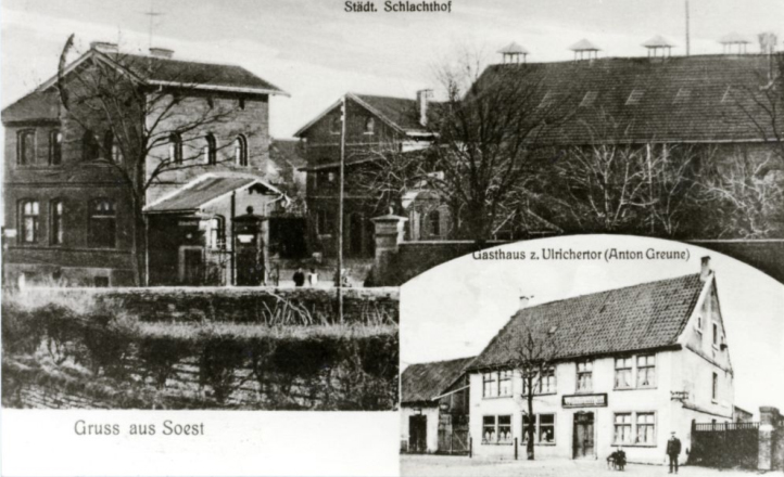 Greeting Card from Soest (aprox.1900)